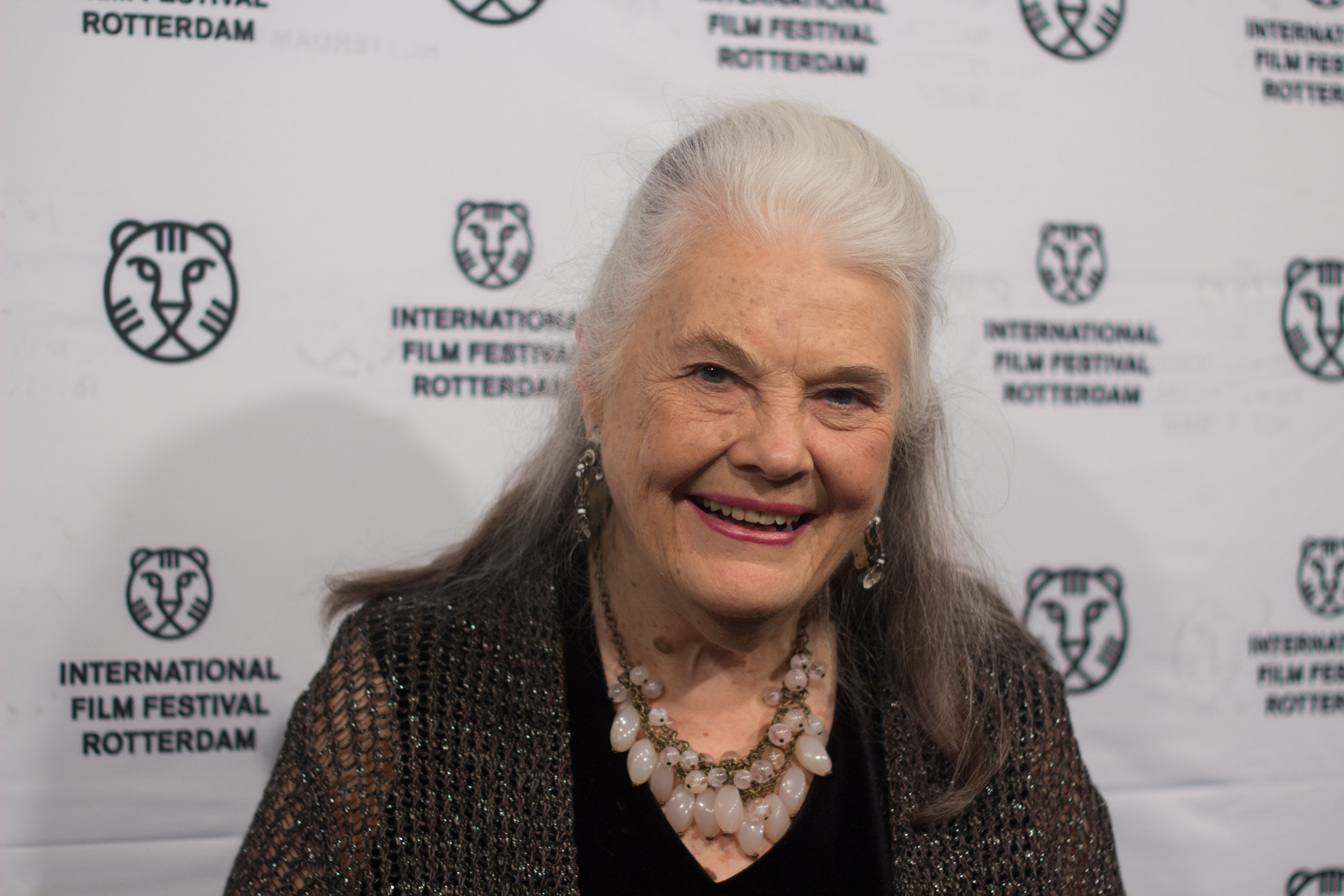 Lois Smith at the premier of "Marjorie Prime"